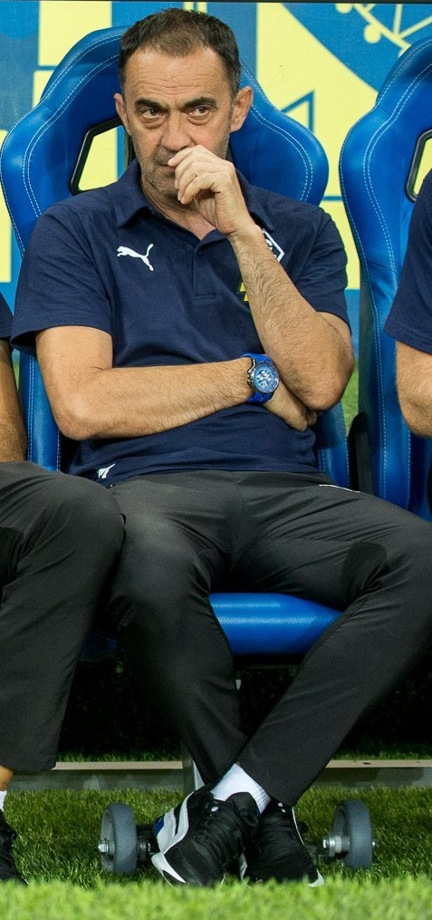 Milorad Bajović as a coach of PFC Krylia Sovetov Samara in a game against FC Rostov.